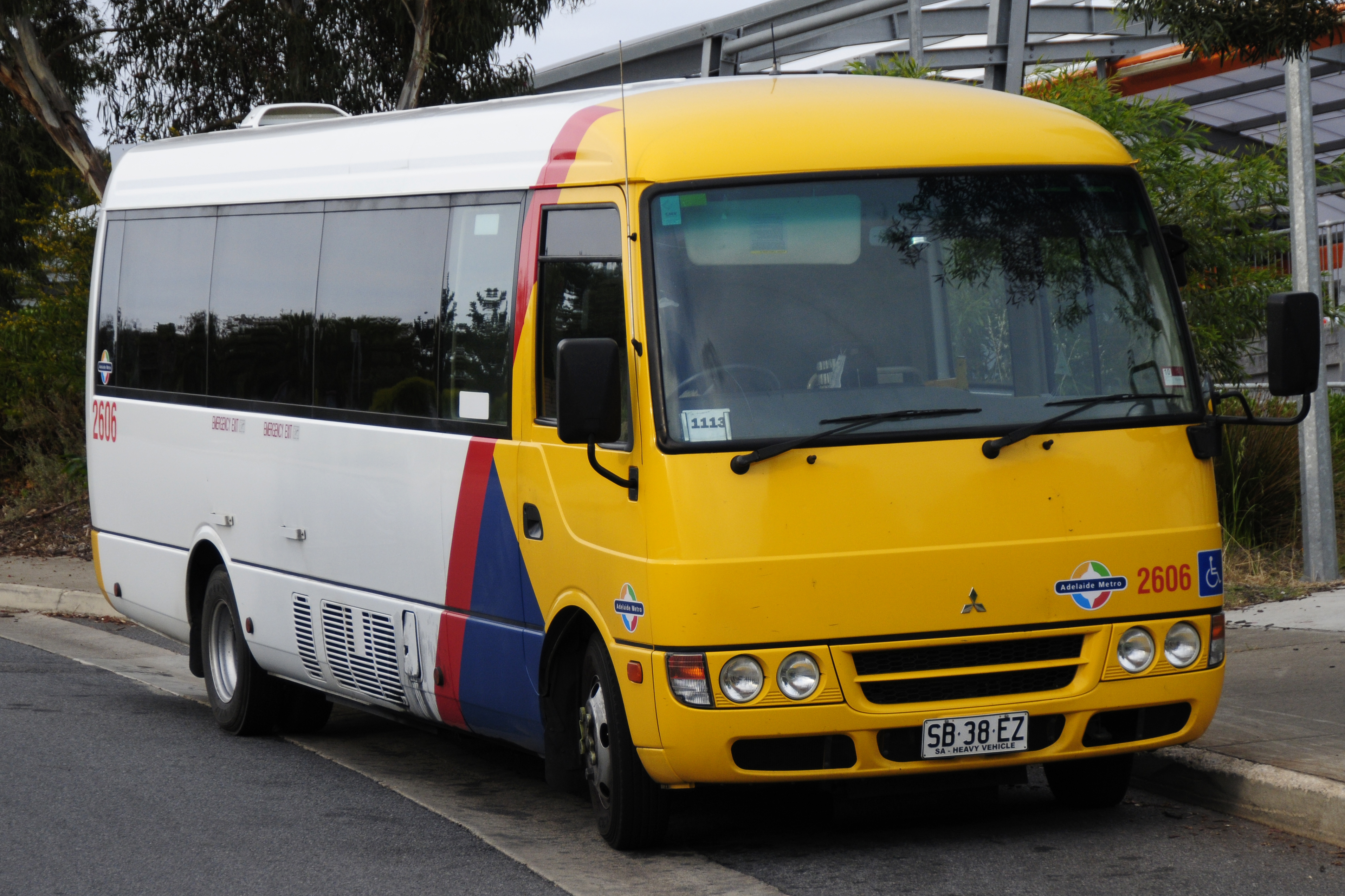 SouthLink Fuso bodied Fuso Rosa (Fleet no. 2606) of route 682 (to Sheidow Park) outside Hallett Cove Beach Station.